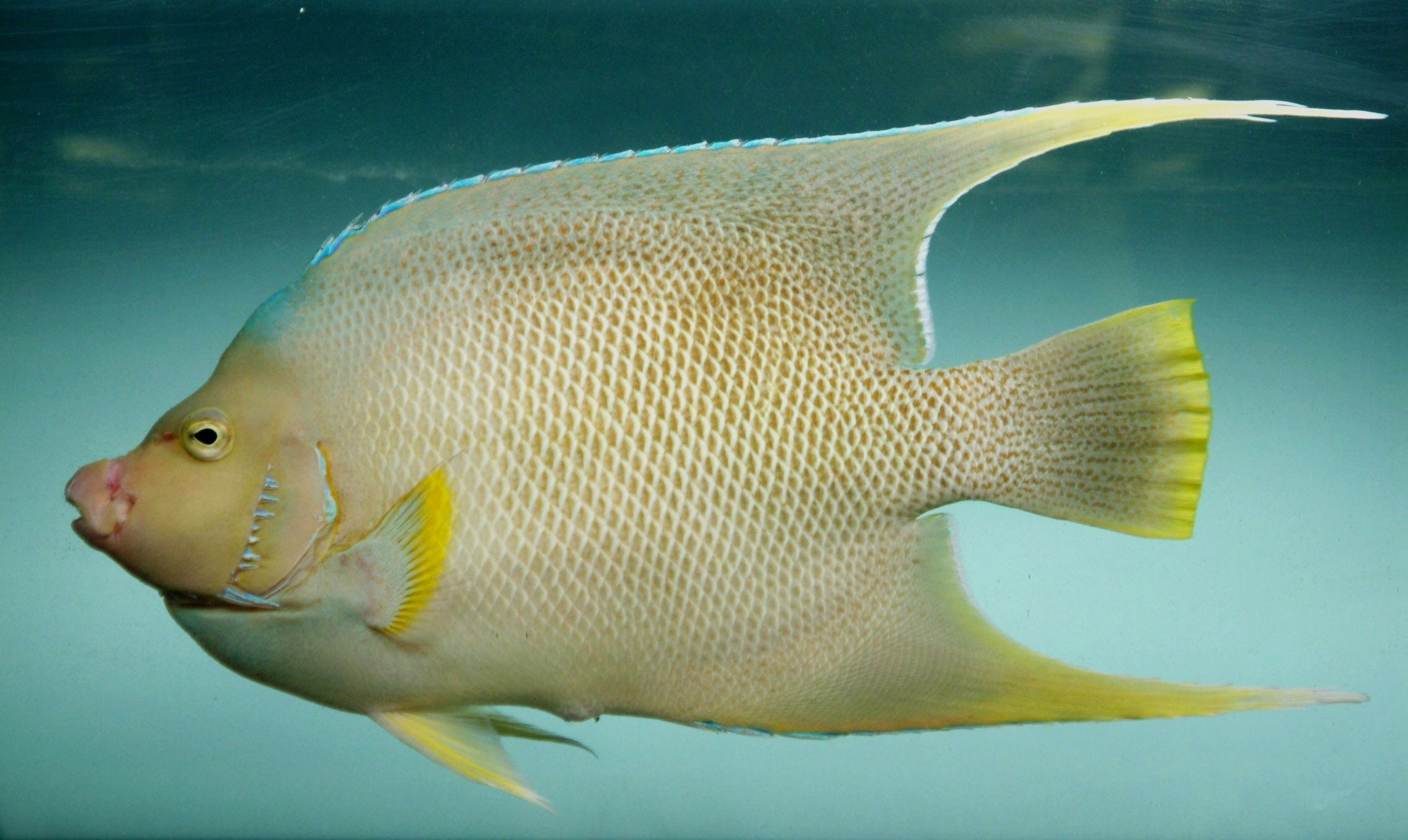 Blue angelfish ( Holacanthus bermudensis) (may be hybrid). Gulf of Mexico.